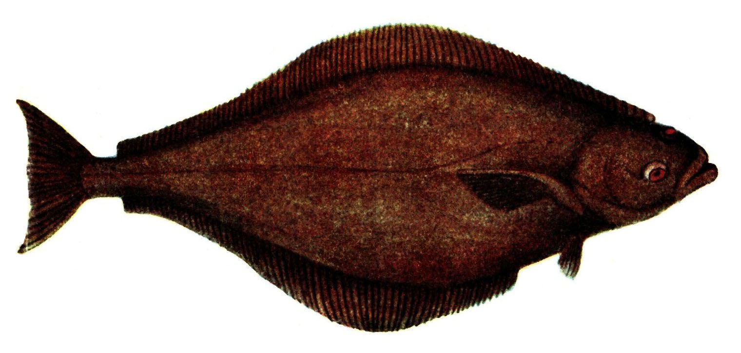 Hippoglossus hippoglossus